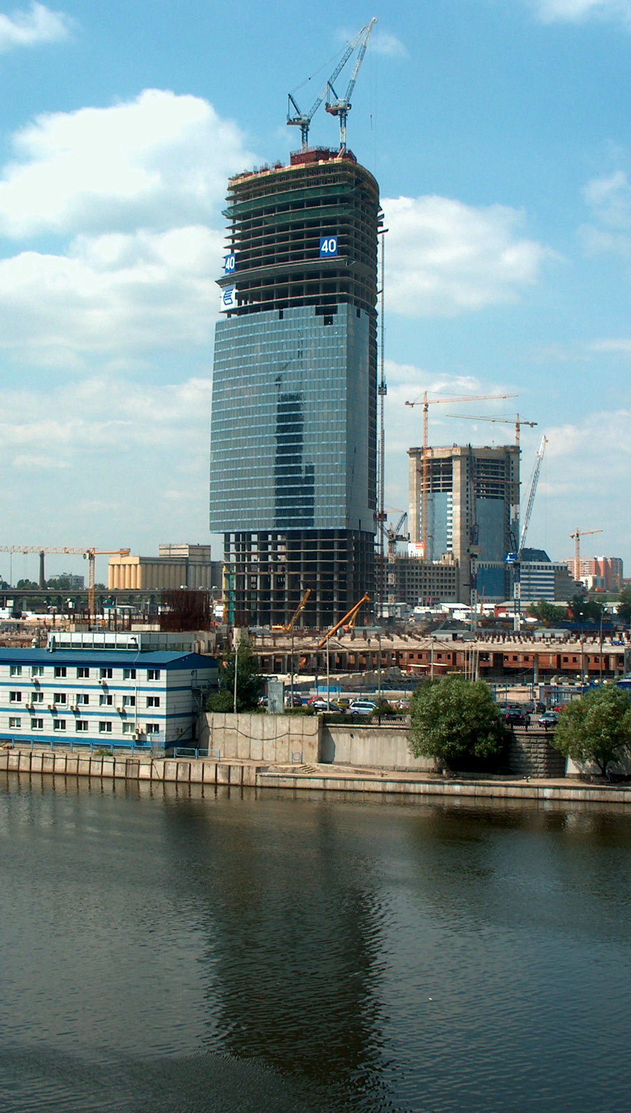 Federation Tower under construction in Moscow-City. Tower B as seen from across the Moscow River.